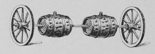 Schematic image of assault barrels.